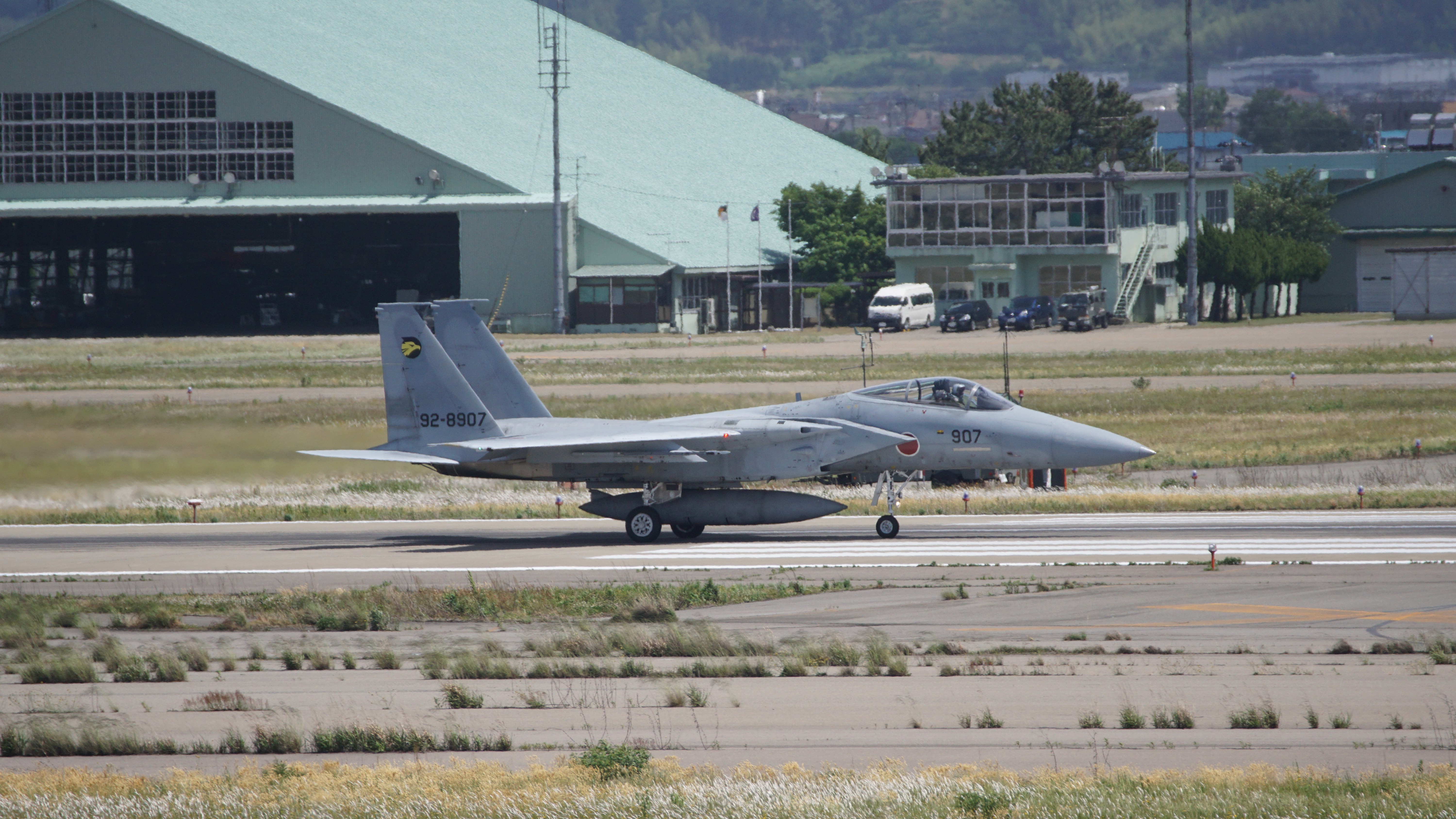 JASDF F-15 at Komatsu Airbase during routine training June 2017